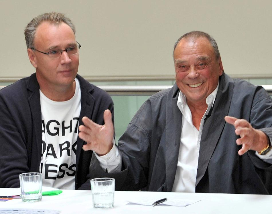 Mattijs Visser, ZERO foundation and ZERO artist Günther Uecker